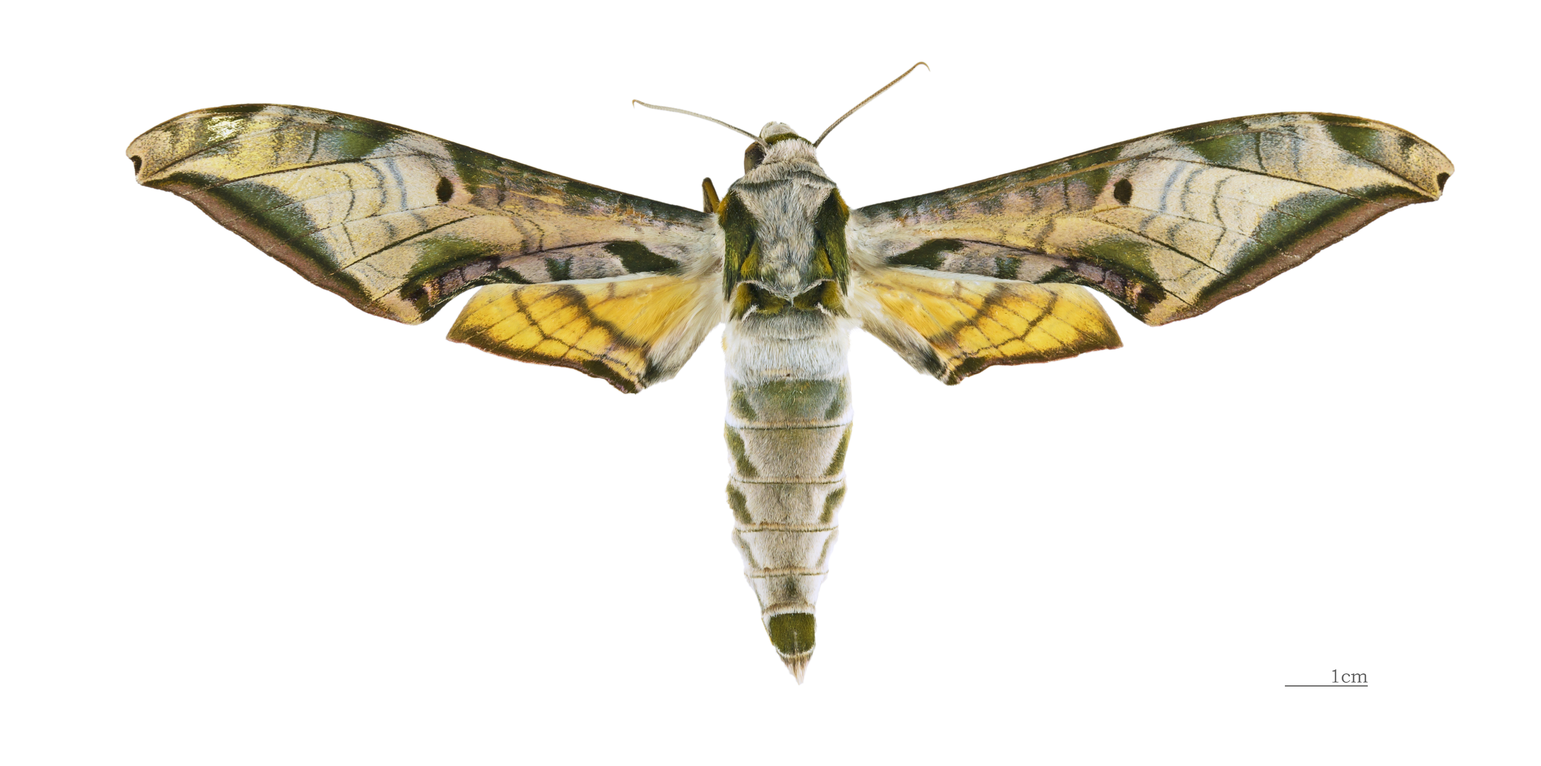 Protambulyx goeldii - Dorsal side